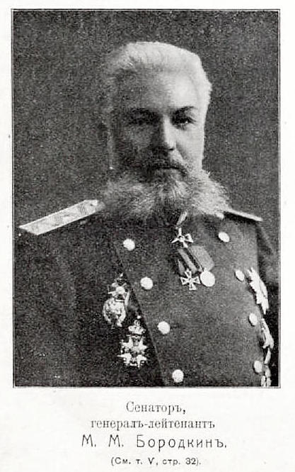 Borodkin, Mikhail Mikhaylovich (1852, Bomarsund – 1919) was Russian lieutenant general, military lawyer and historian.